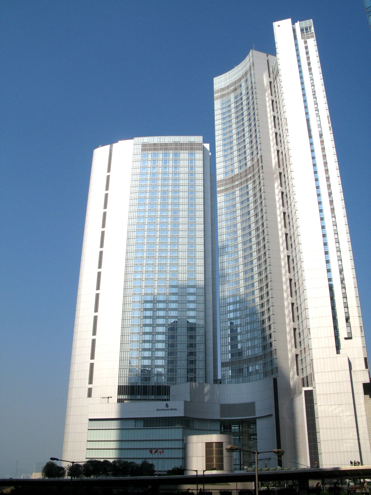 HK Four Seasons Hotel